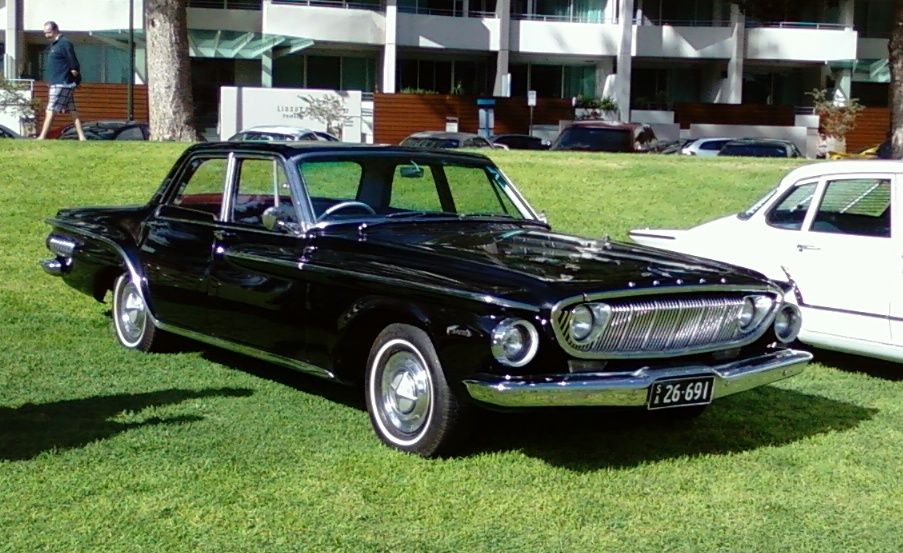 1962 Dodge Phoenix Sedan, at the the Chrysler Restorers Club day at Glenelg in South Australia